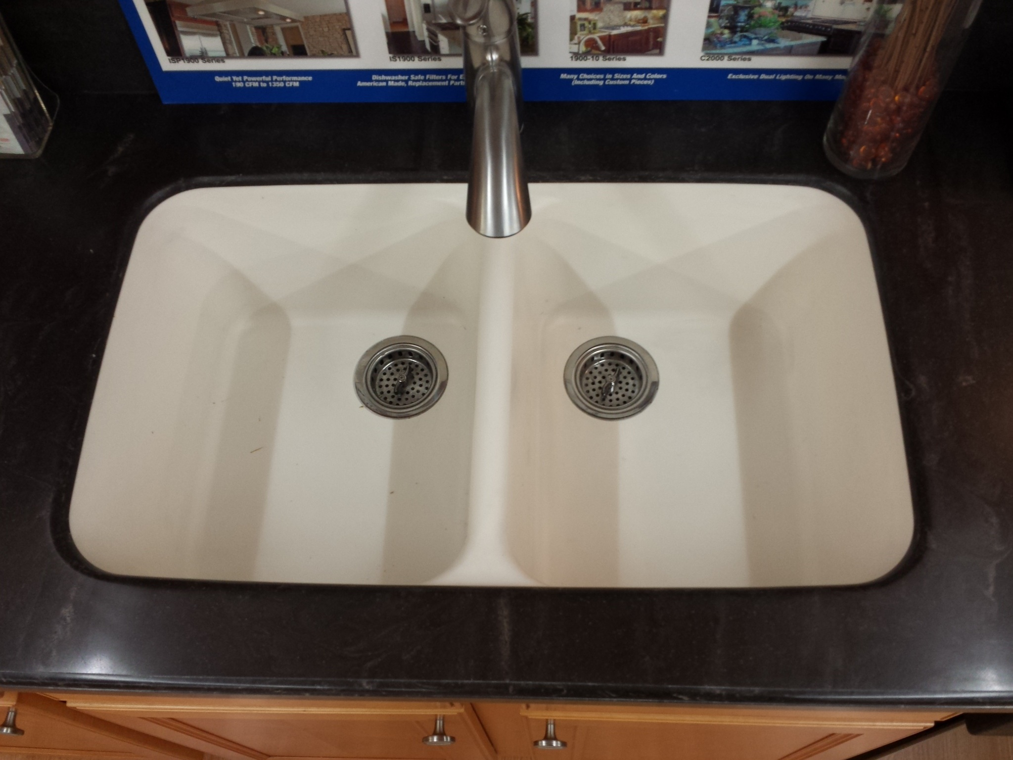 Sink Integrated into Corian countertop